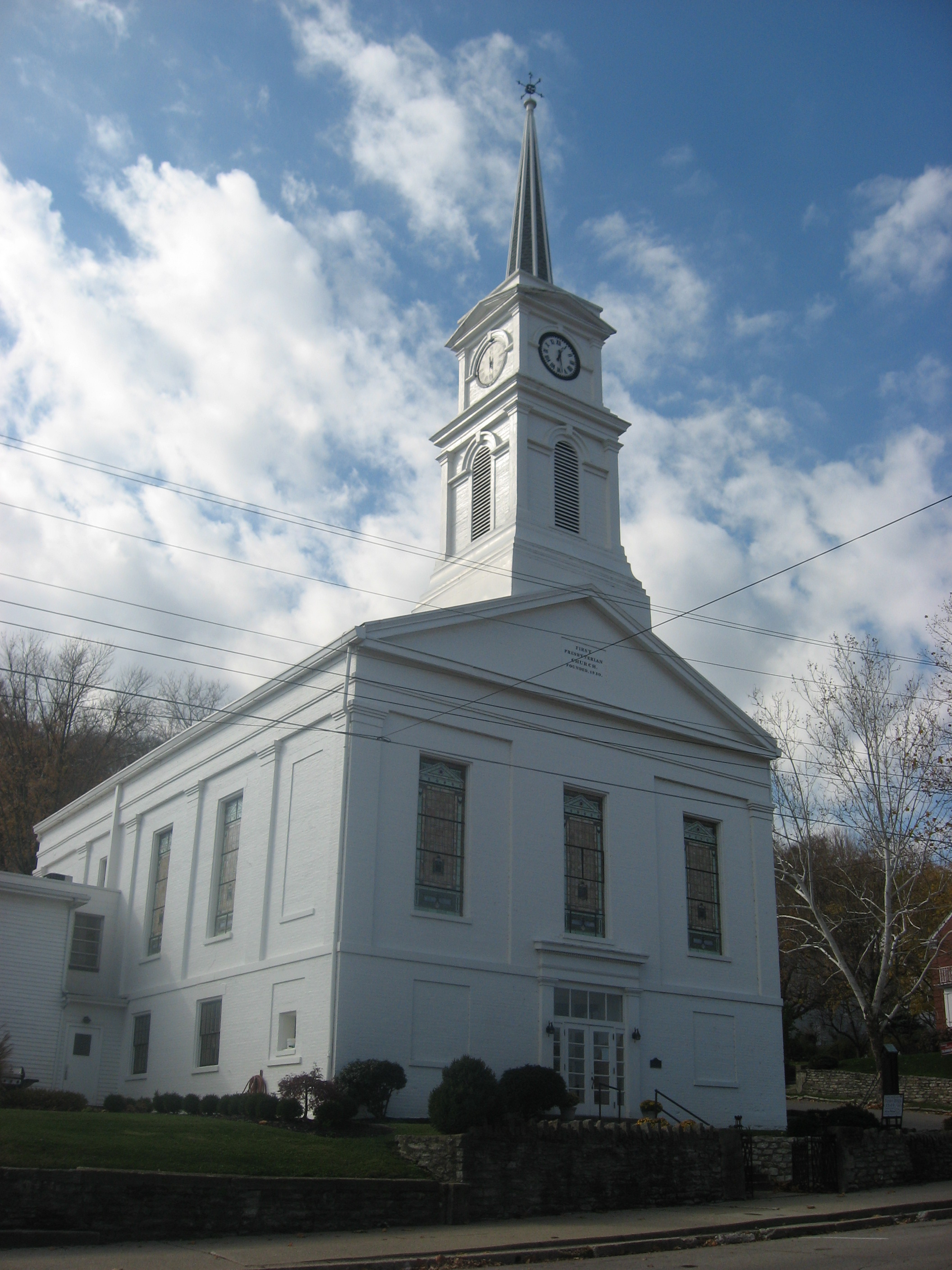 Front and eastern side of the First Presbyterian Church, located at 215 Fourth Street in Aurora, Indiana, United States. Built in 1855, it is listed on the National Register of Historic Places, and it is part of a Register-listed historic district, the Downtown Aurora Historic District.